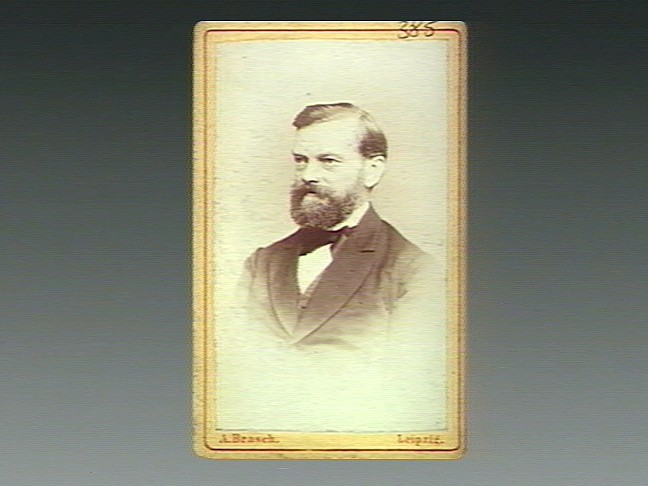 Victor Carus. Photograph by August Brasch, 1879. Iconographic Collections Keywords: portrait photographs